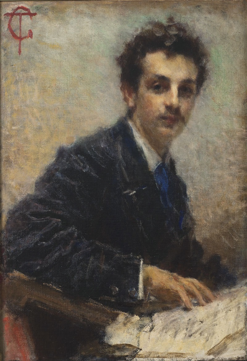 Portrait of Benedetto Junck by Tranquillo Cremona, 1874 GAM - Galleria Civica d'Arte Moderna e Contemporanea, Torino